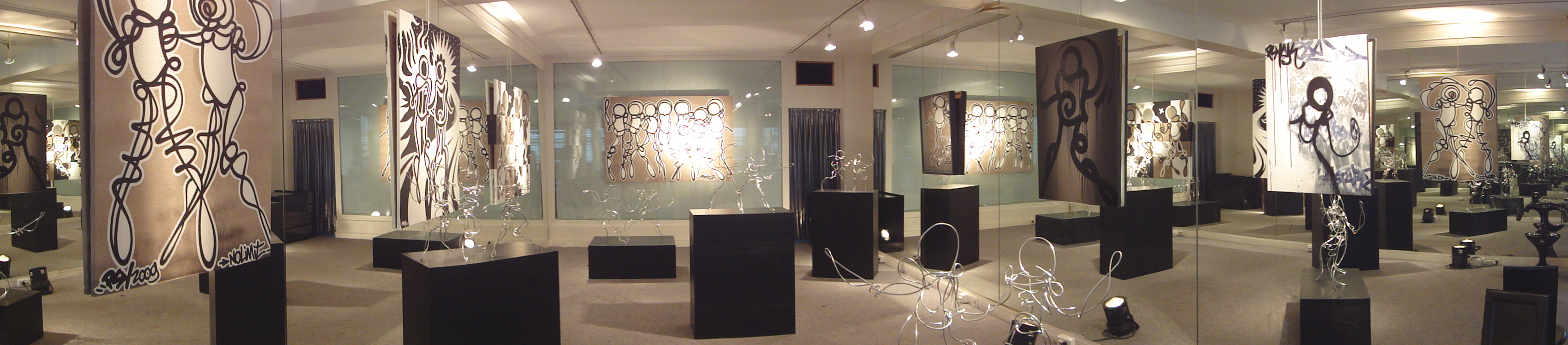 expo PC